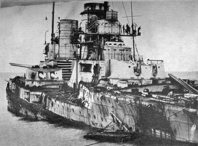 SMS Seydlitz damaged after the Battle of Jutland.